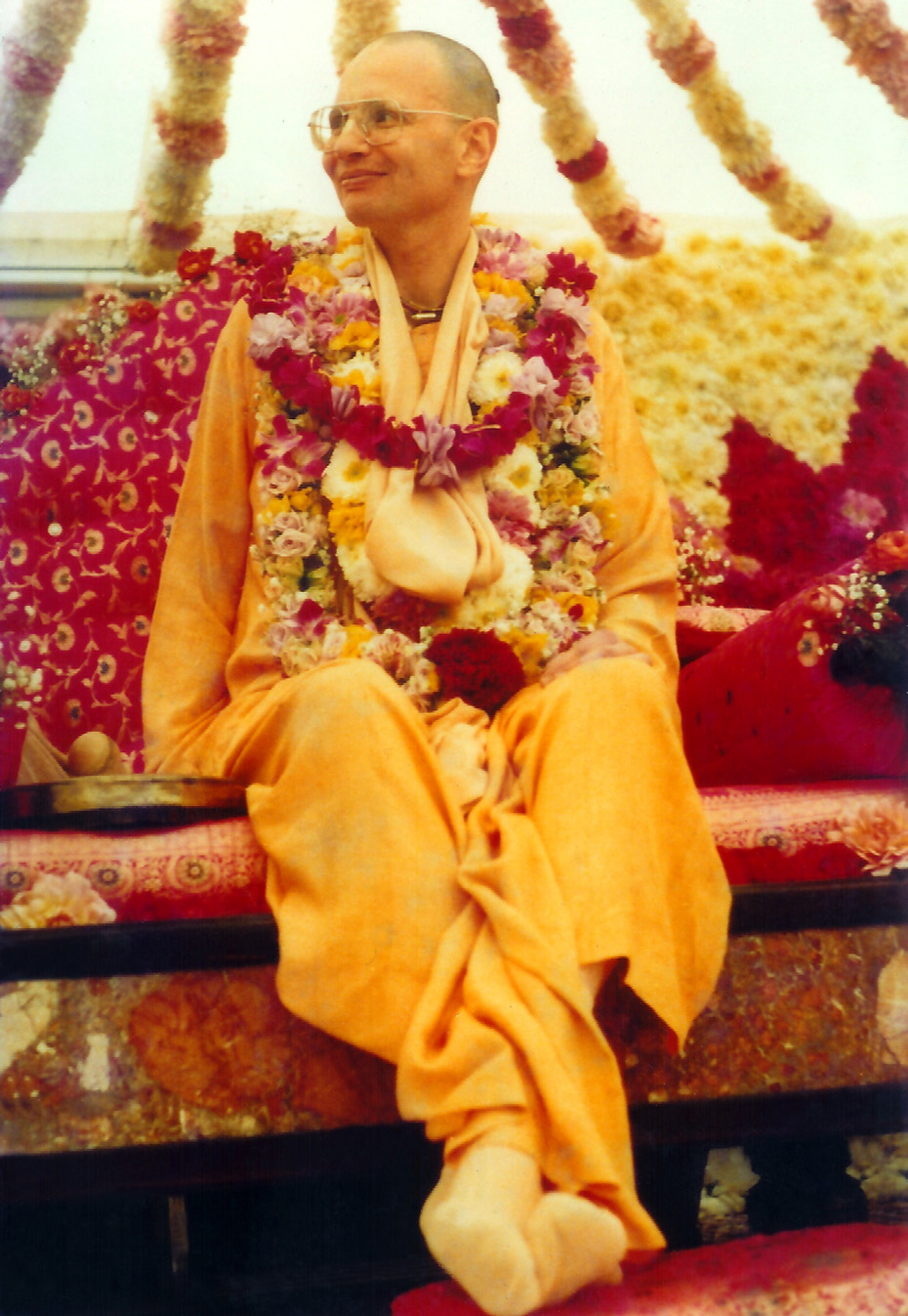 Harikesha Swami - Ex-guru of the International Society for Krishna Consciousness